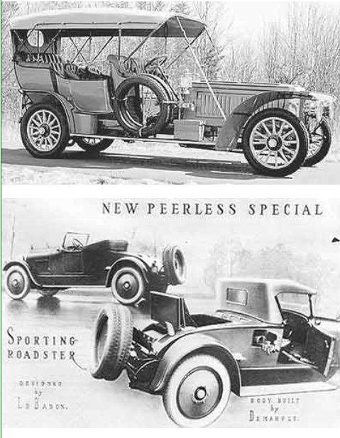 Demarest-built bodies in advertisements: Upper; circa 1911 Panhard & Levassor. Lower; 1921 Peerless Roadster following a design by LeBaron.